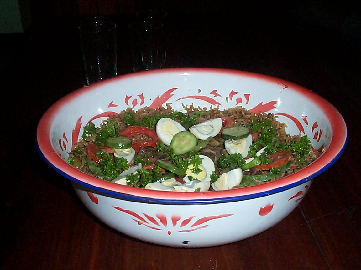 My First proper Senegalese meal. More well known is Ceebu Jen (thiéboudienne) made with fish, vegetables, and oily rice, which is a staple meal in Senegal most lunchtimes, although scandalously all ingredients now have to be imported because of "free trade". This dish is roughly the same but with beef instead of fish, so for a slightly more special occasion. The best bits are the crusty bits of rice from the bottom of the pot.